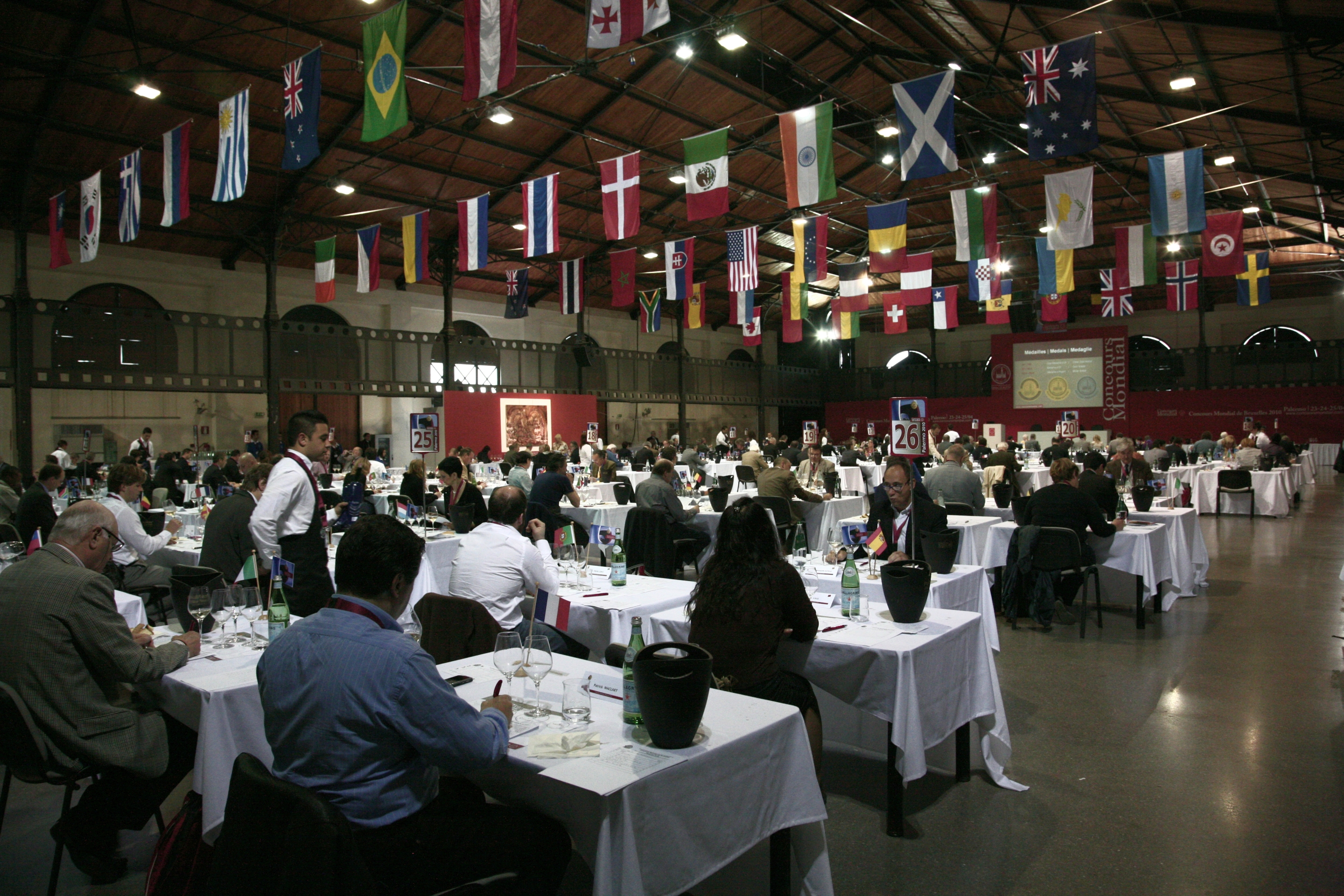 Wine competition: the tasters at work at the "Concours Mondial de Bruxelles"